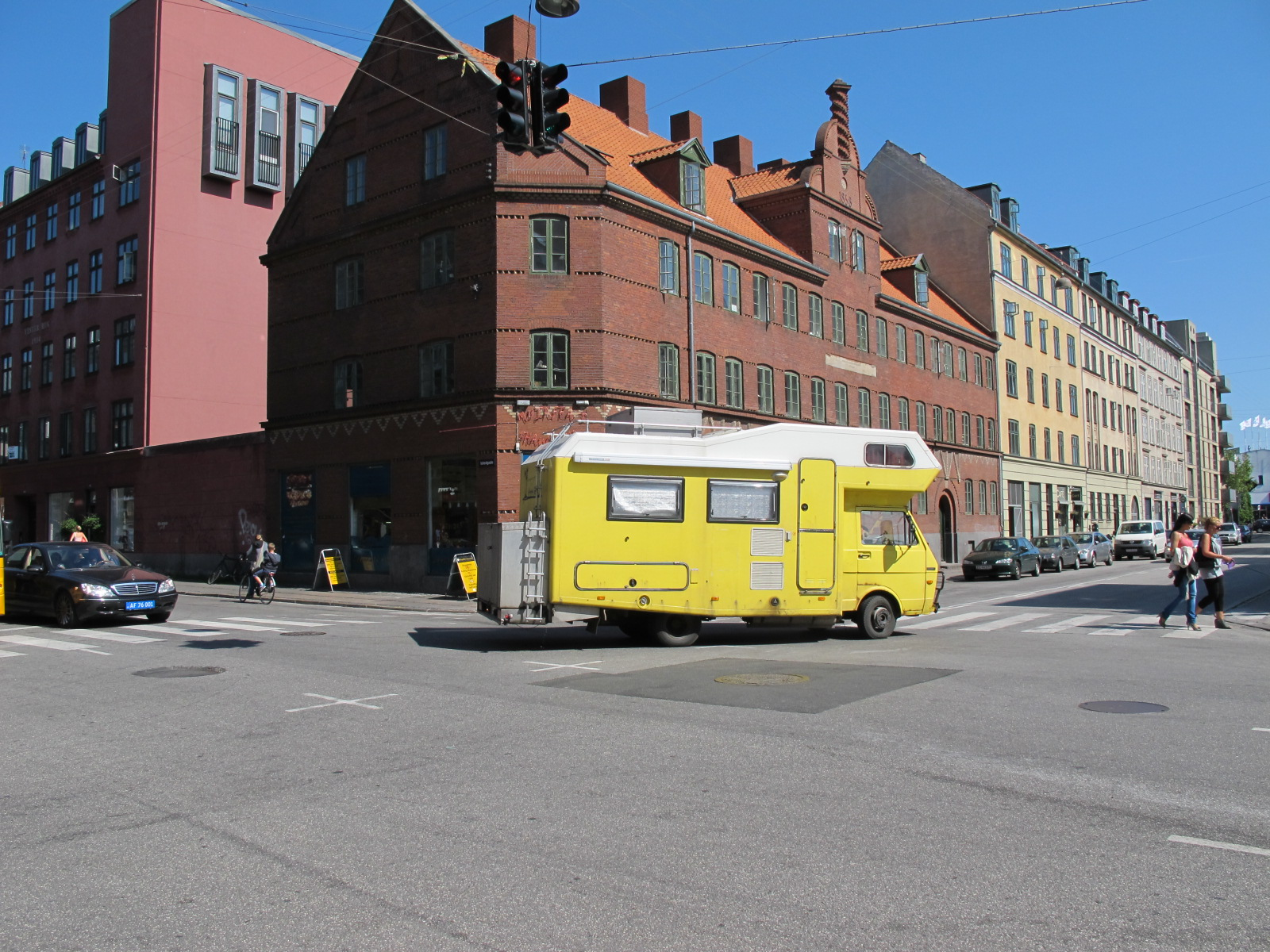 Skomagerstiftelsen (The Shoemakers Institution) on the corner of Gasværksvej and Istedgade in the Vesterbro district of Copenhagen, Denmark.